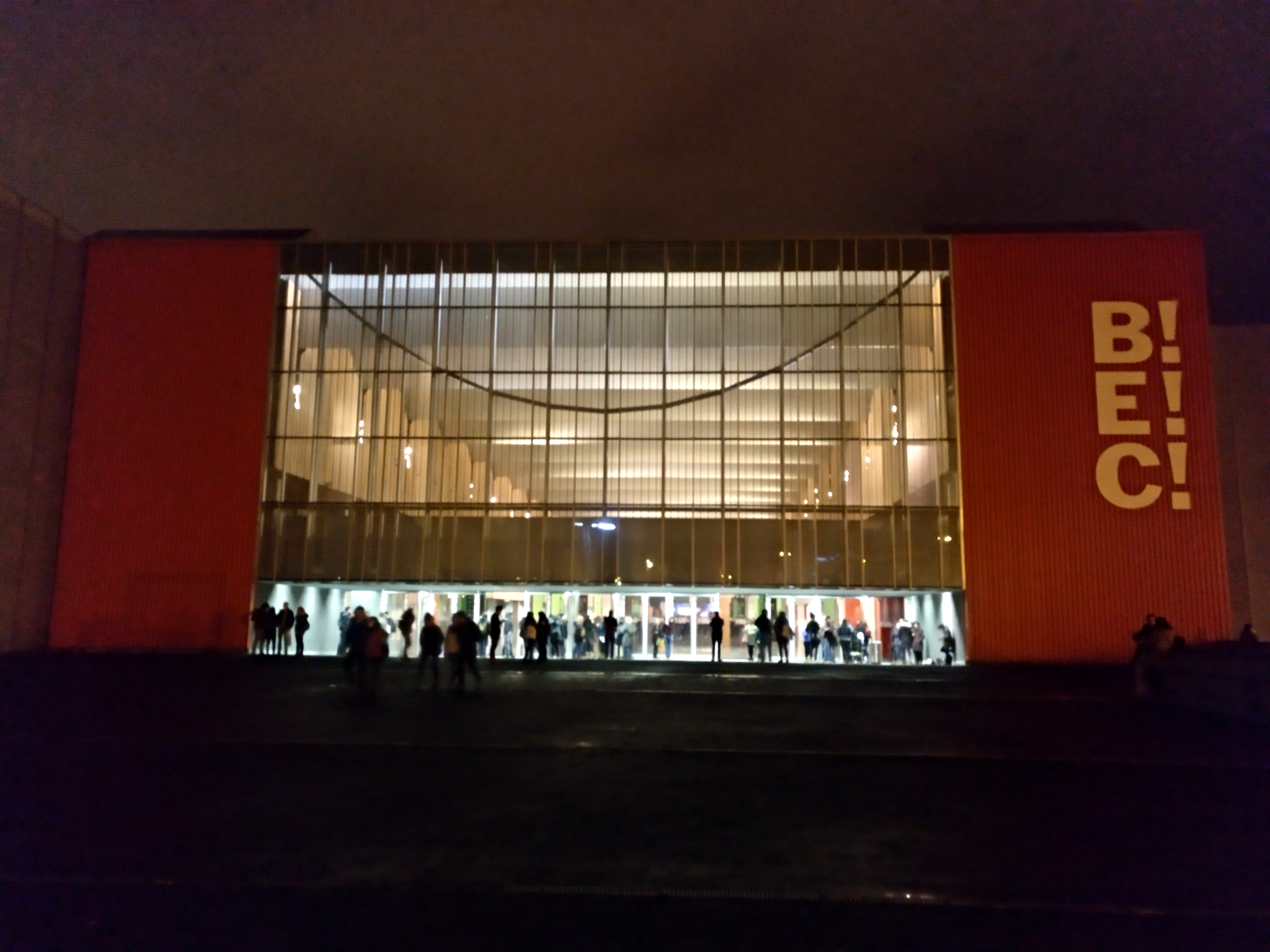 Bertsolaritza Main Championship 2017 finals